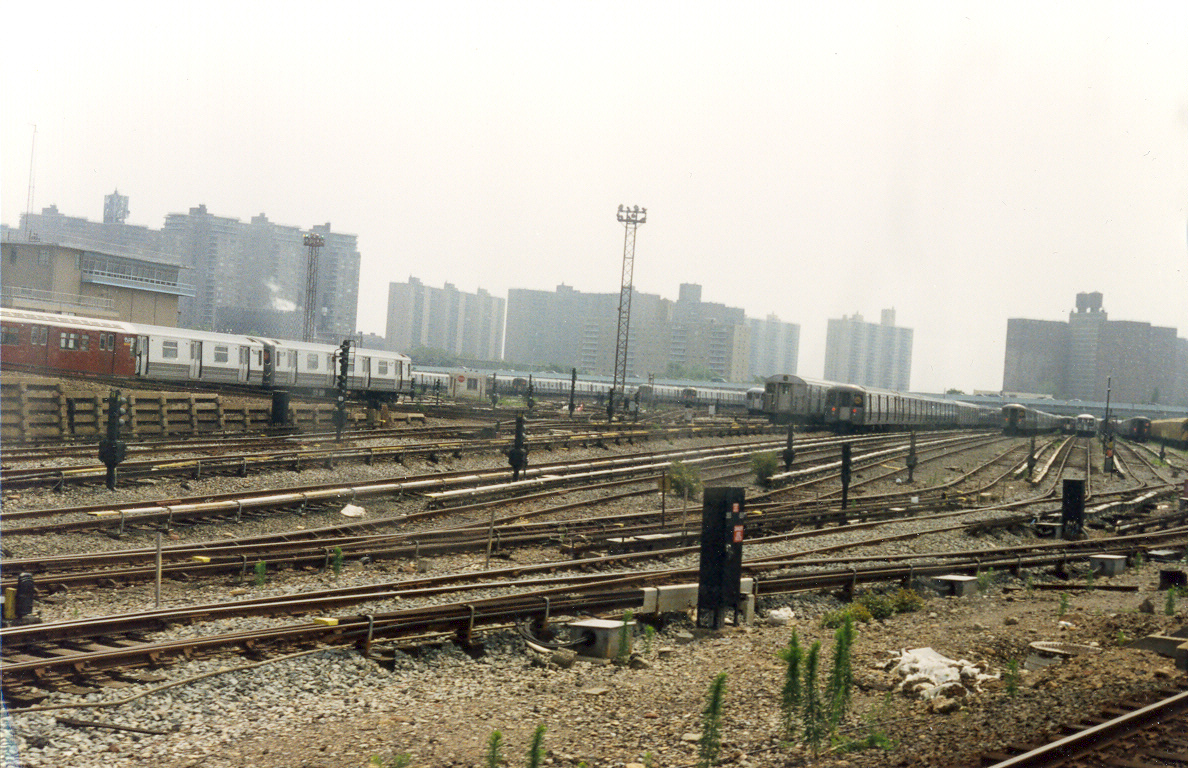 Looking southeast at the Coney Island Complex.